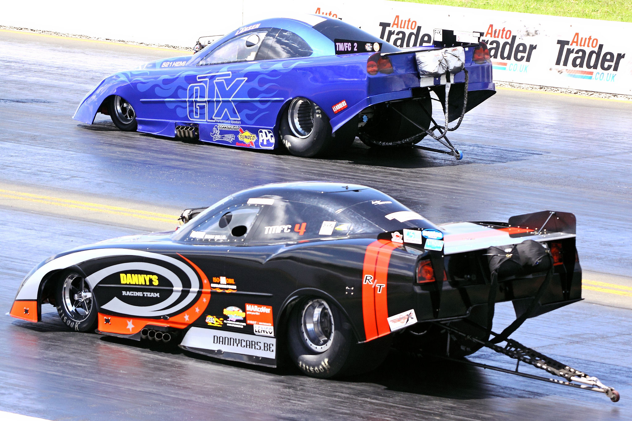 FIA Top Methanol Funny Cars - Santa Pod 2010 - Drivers: Danny Bellio (BEL) / Andreas Larsen (SWE)